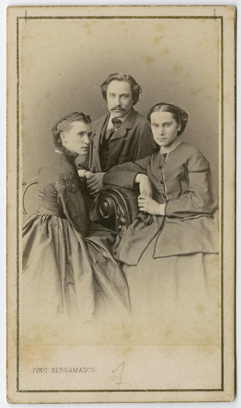 Kazimierz Cytowicz with his sisters, Wincentyna and Stefania